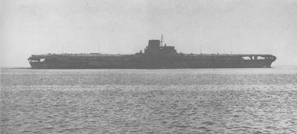 Japanese aircraft carrier Shinano in Tokyo Bay during her sea trials. At the time the photo was taken, she was conducting steering tests, which is the reason the ship has a slight heel in this shot. A civilian, Marine engineer Hiroshi Arakawa, took the photo while he was aboard a tugboat which was also undergoing trials. At some point he presented a single print of this shot to the president of the company that owned the tugboat; in turn, the president gave it to Shizo Fukui. Later on, it was given to Walter Chesneau, who held it up to at least 1987.[1]